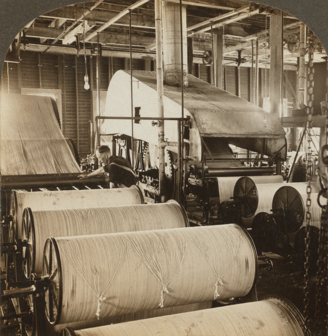 Slashing or Starching the Warp, Dallas Cotton Mills, Dallas, Texas, U.S.A.. Robert N. Dennis collection of stereoscopic views. / United States. / States / Texas. / Stereoscopic views of Texas. (Approx. 72,000 stereoscopic views : 10 x 18 cm Stephen A. Schwarzman Building / Photography Collection, Miriam and Ira D. Wallach Division of Art, Prints and Photographs Record ID: 740854